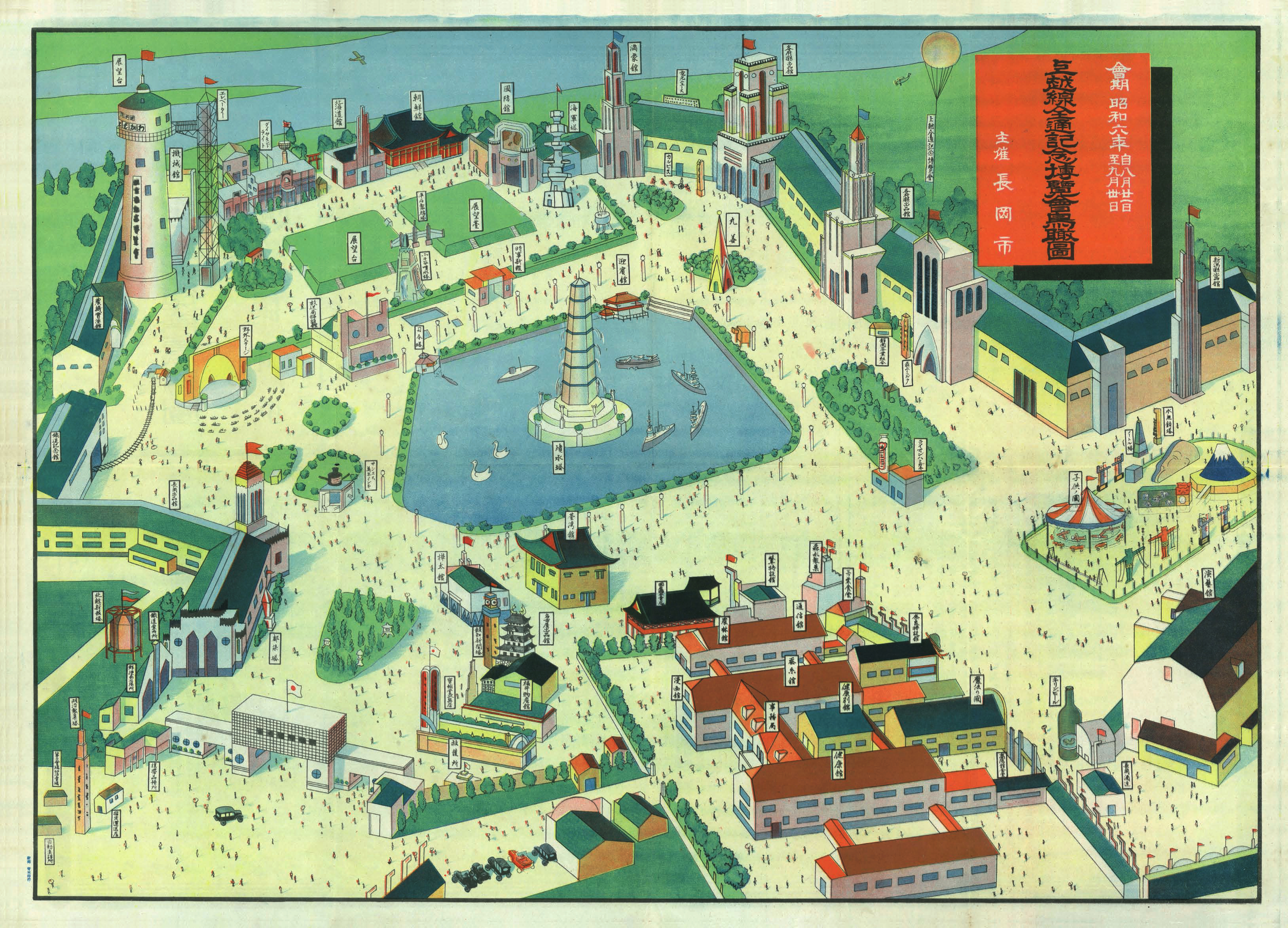 Picture of the Jōetsu Line full open commemoration Exhibition in 1931